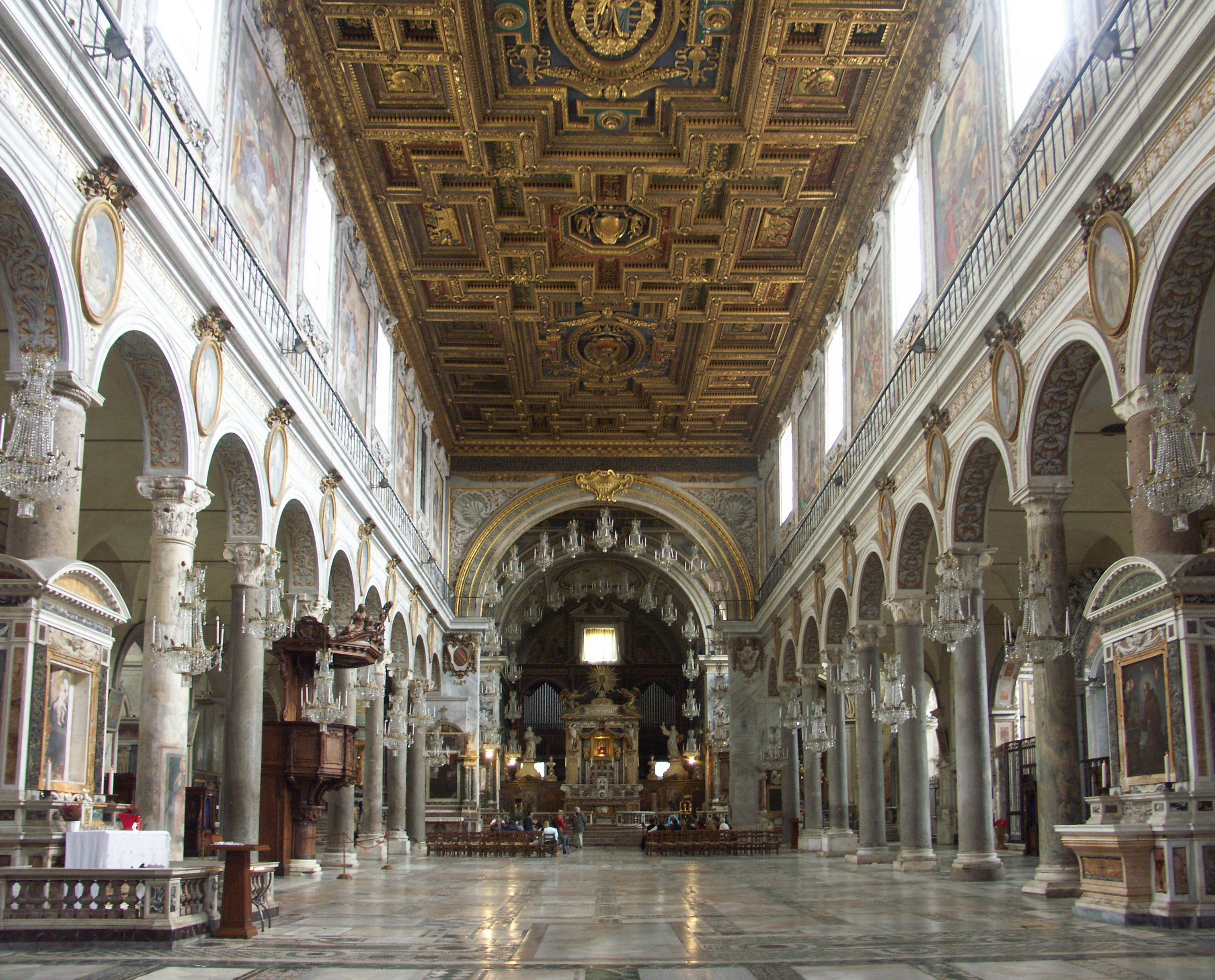 Interior of Santa Maria in Aracoeli, Rome